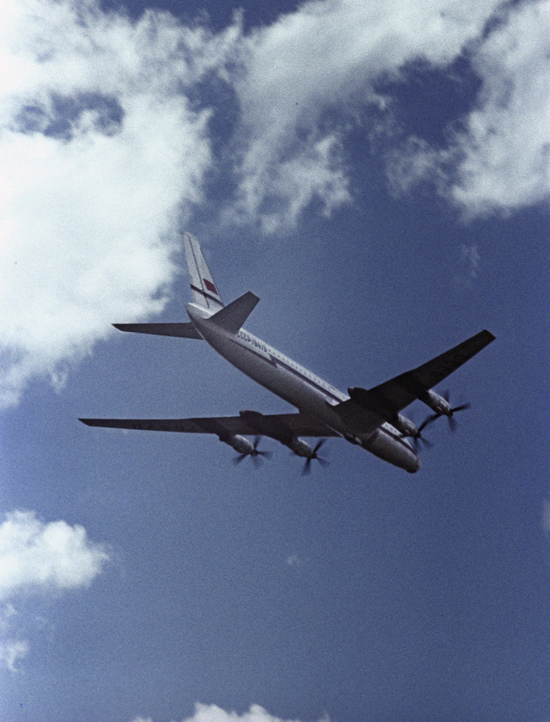 “A Tupolev Tu-114 Cleat long-range turboprop airliner”. July 9, 1961. A Tupolev Tu-114 Cleat long-range turboprop airliner flying by during an air parade in Tushino, Moscow.